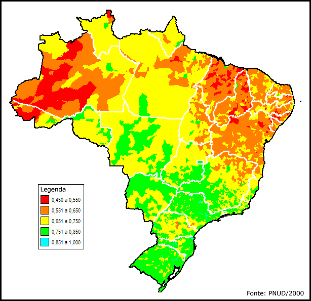 HDI index on brazilian cities.